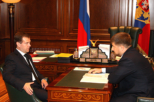 GORKI, MOSCOW REGION. With President of Chechnya Ramzan Kadyrov.